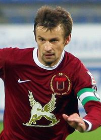 Sergei Semak,Russian football player.